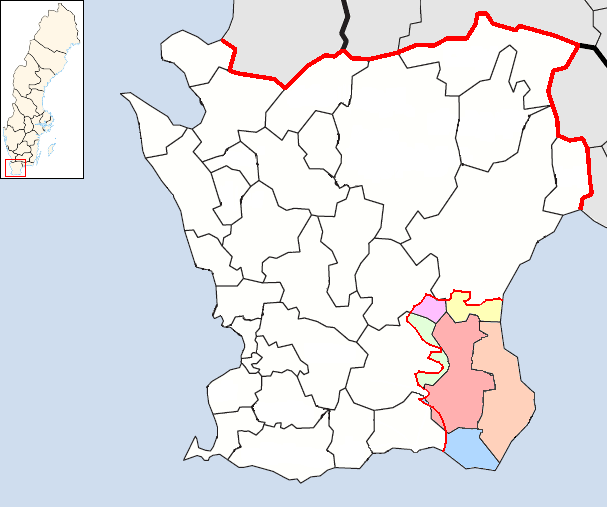 Map over the historical area of Österlen. brown = Simrishamns kommun pink = Tomelilla kommun